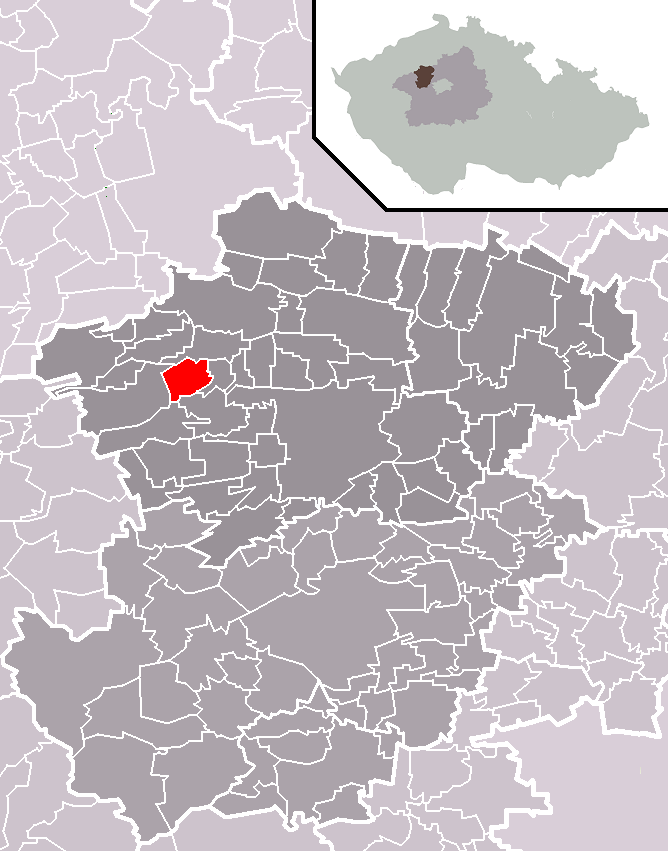 Location of Plchov municipality within Kladno District and administrative area of Slaný as a Municipality with Extended Competence.